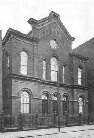 Former home of Mikveh Israel Synagogue in Philadelphia